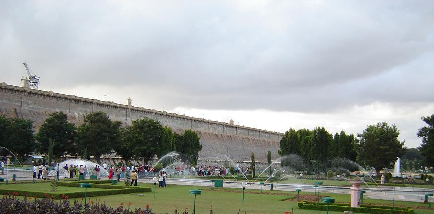 This is a photo taken by me of Krishnarajasagar dam near Mysore, India